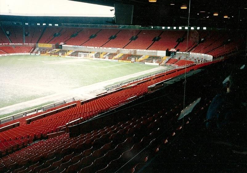 Old Trafford seen from a VIP-box in 1992 (Use it free)